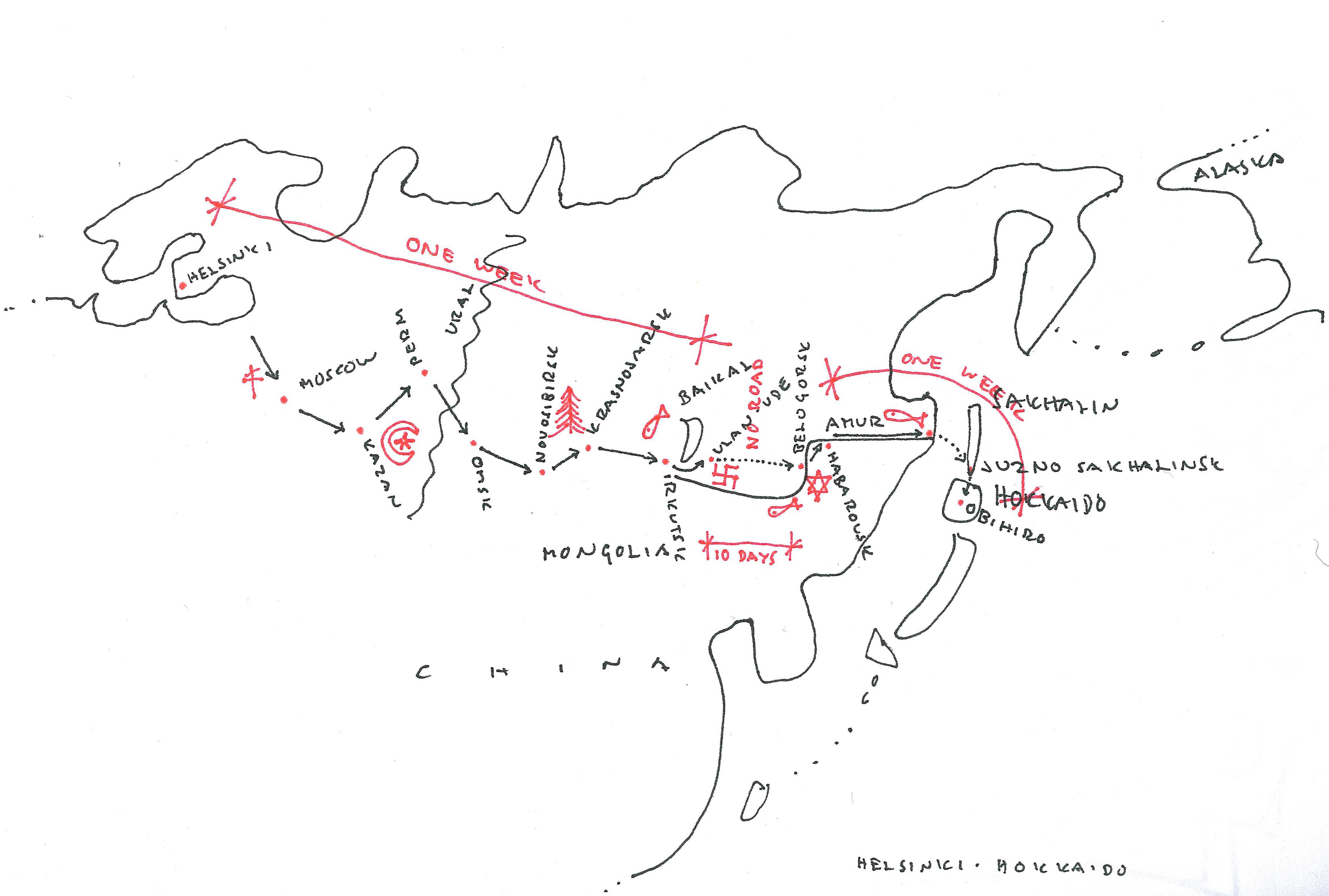 Dallas-Kalevala route driven by Casagrande & Rintala in 2002 from Finland to Hokkaido with a Land Rover Defender. Drawing Marco Casagrande.